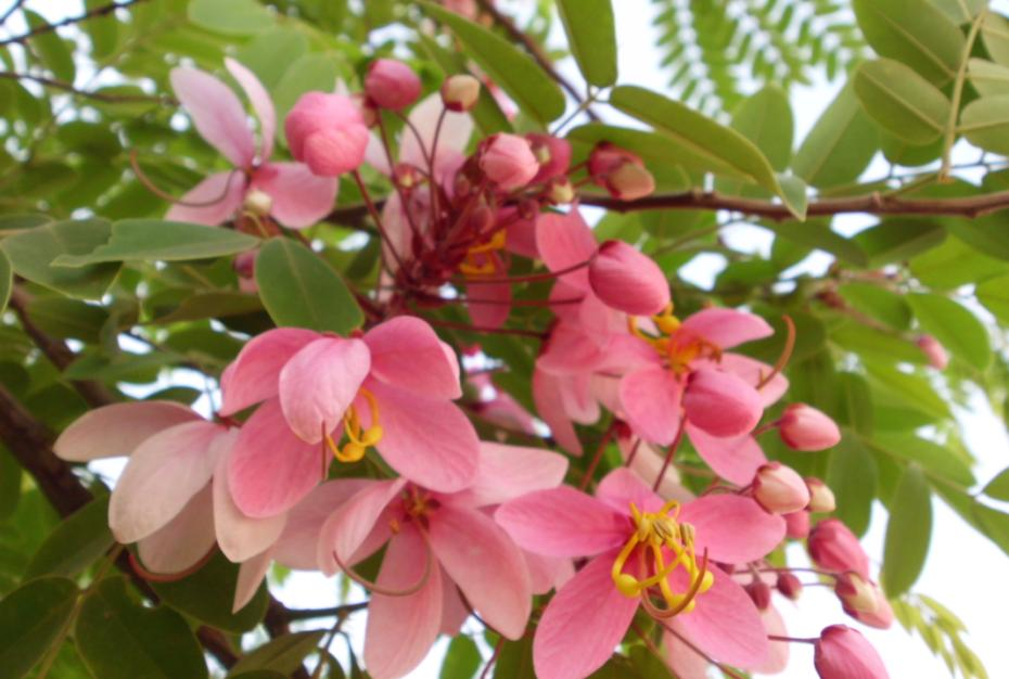 this photo taken at Cairo